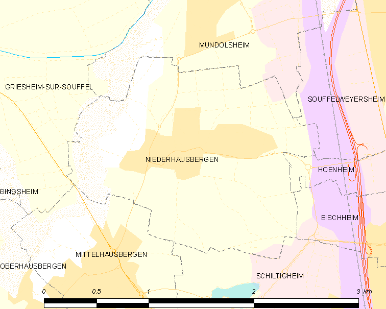 Map of French municipality